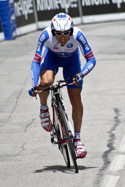 Prologue of the 2011 Dauphiné Libéré in Saint Jean de Maurienne